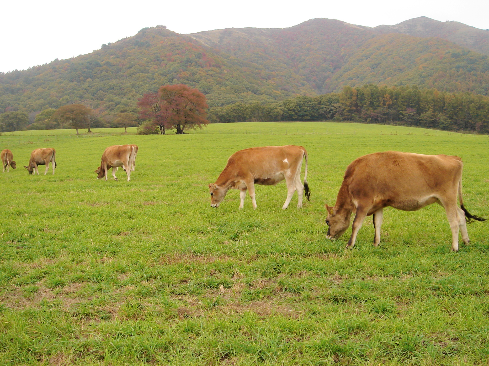 Jersey cattle on the Hiruzen Plateau, Okayama, Japan.